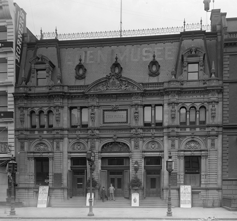 This is a photo by Robert L. Bracklow from c. 1900